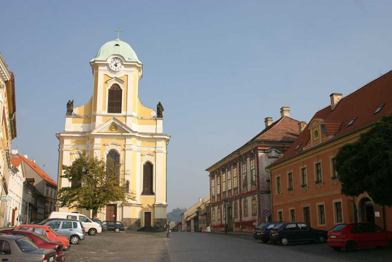 SS Peter and Paul church in town of Úštěk, Litoměřice District, Czech Republic.